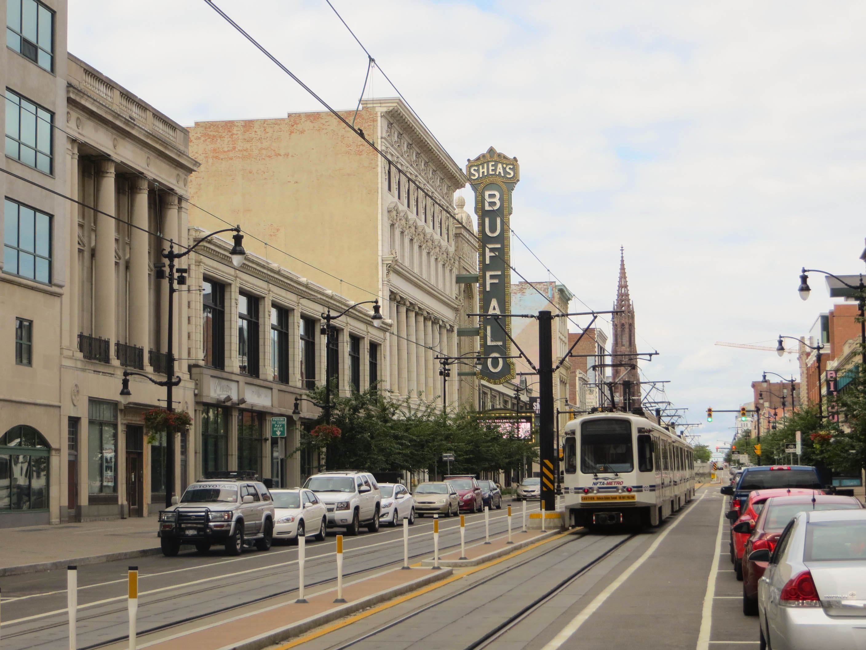 Looking north on Main Street from Chippewa Street, in downtown Buffalo, New York, as a northbound Metro Rail light-rail train (going away from the camera) passes the Shea's Performing Arts Center, housed in the former Shea's Buffalo Theater building.